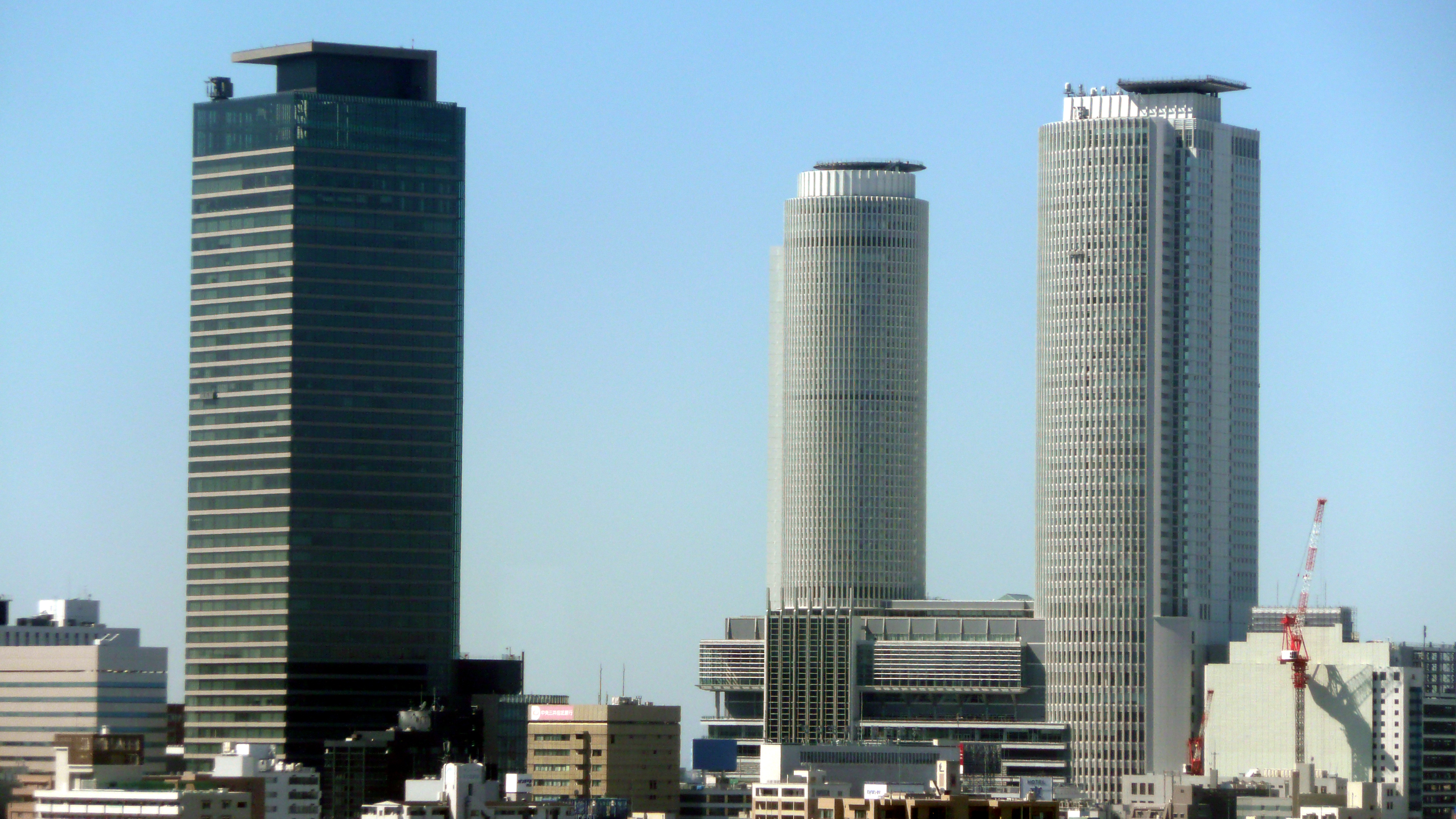 Midland Square (Toyota-Mainichi Building) and JR Towers in Nagoya, Japan